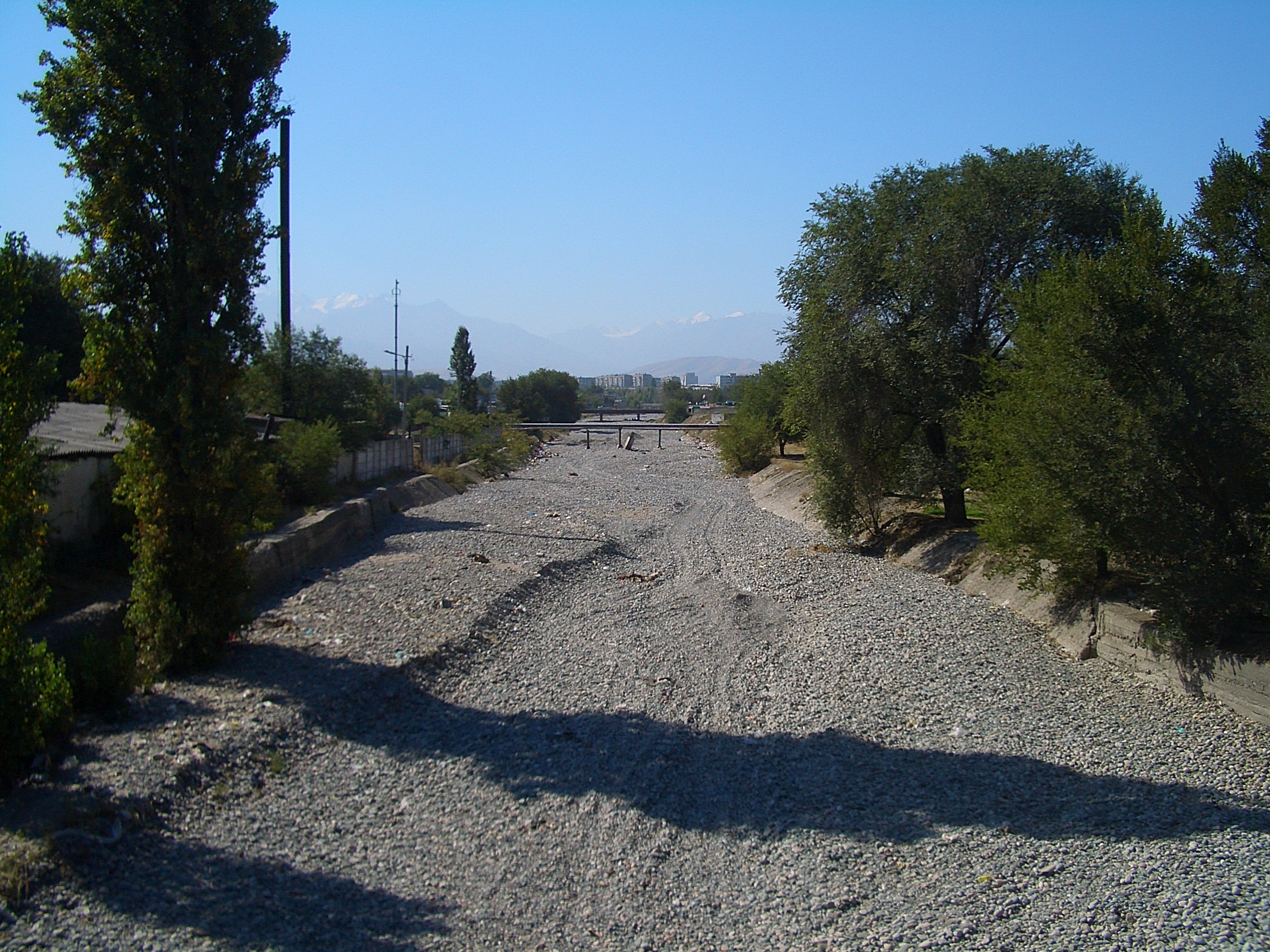 Alamedin River gets rather dry in September. (Picture taken from Zhibek Zholu Ave. in Bishkek)